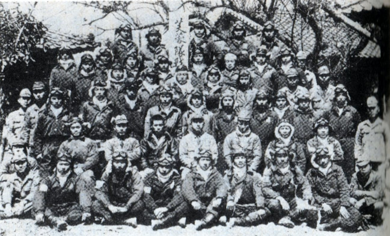 Imperial Japanese Navy Air Group, Fuyou Butai